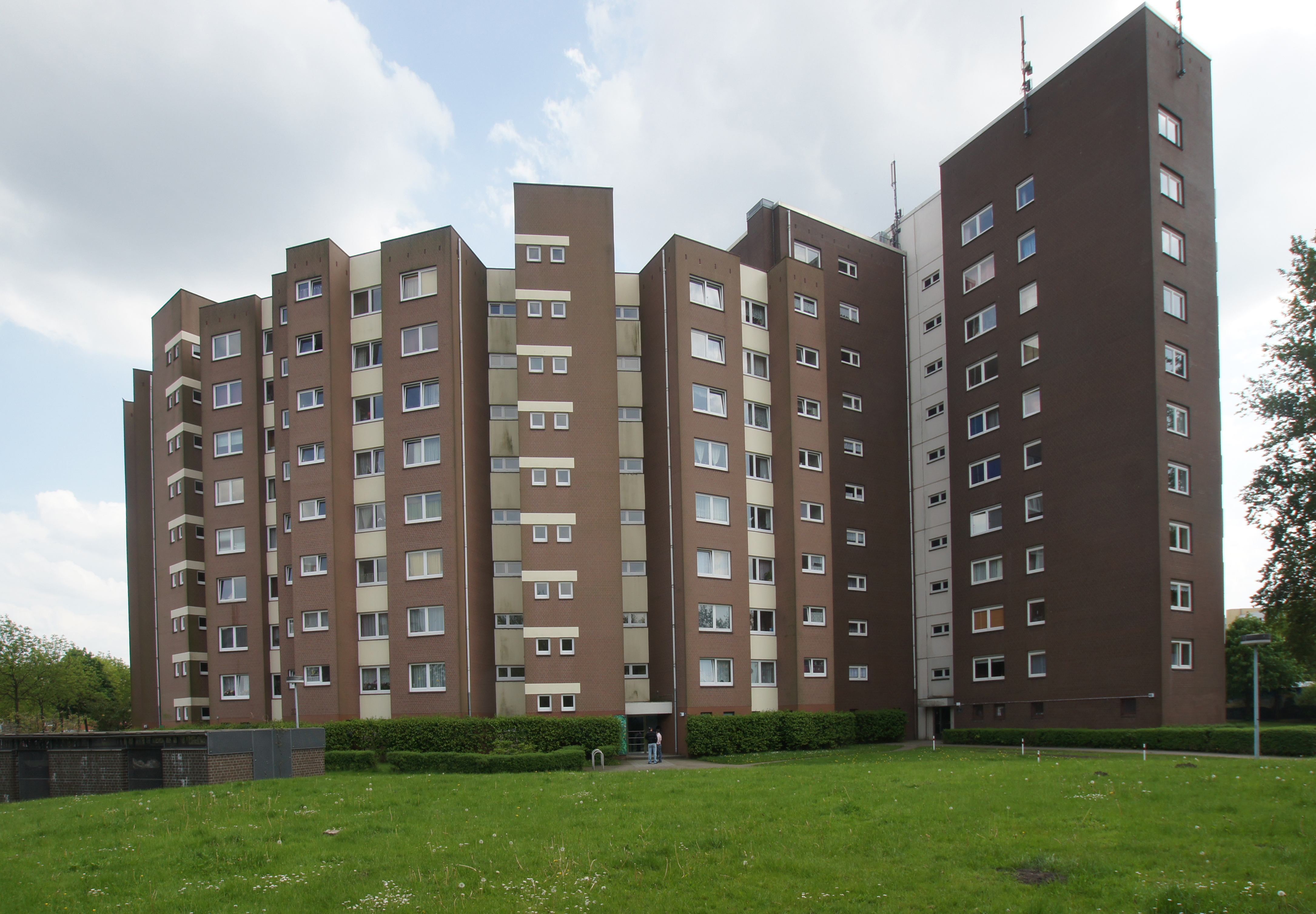 Hamburg (Steilshoop), Germany: Borchert-Ring